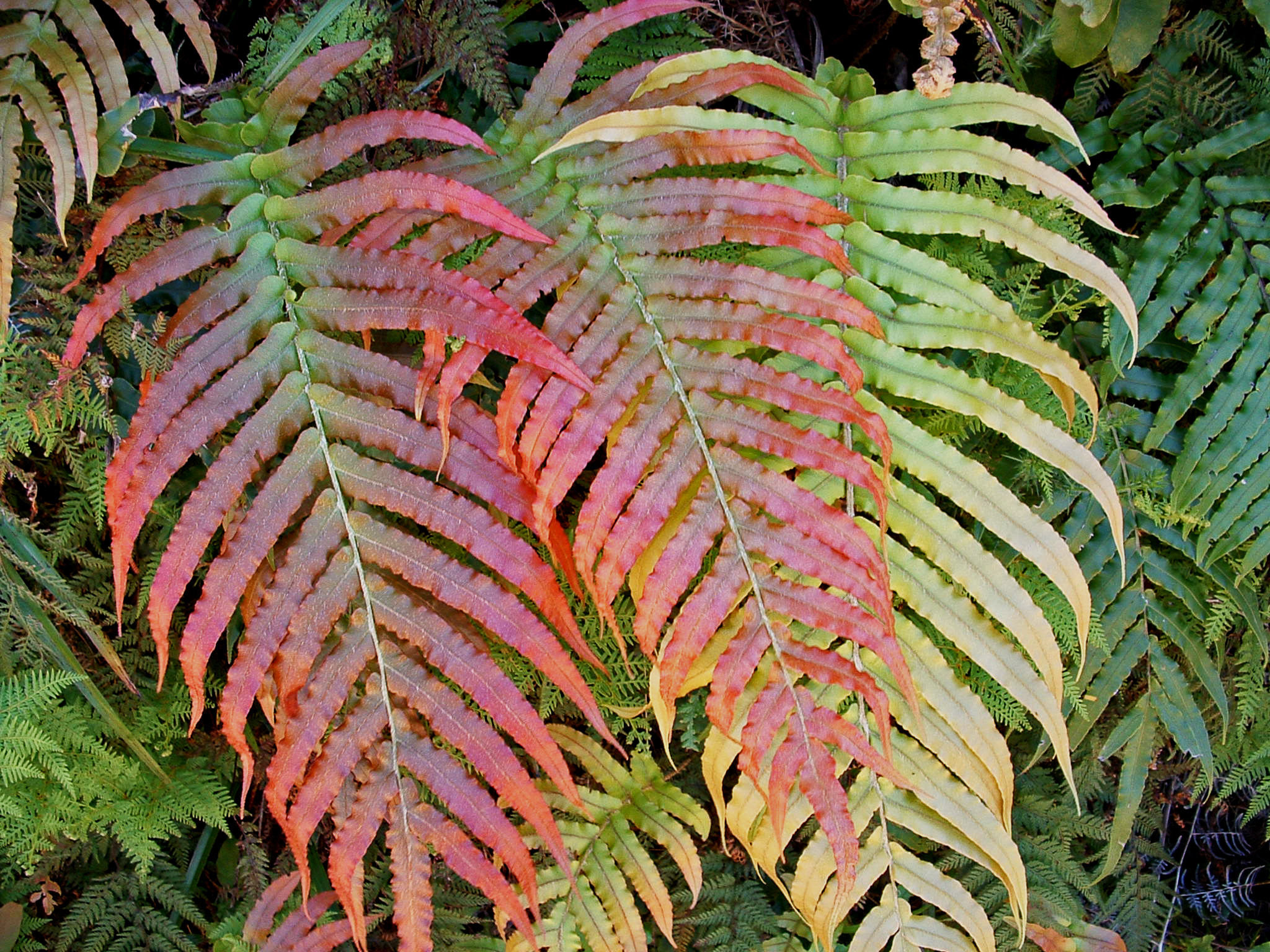 The colors in this picture are unaltered. I changed the brightness and a litte of the highlights but did not alter the colors. Amazing the amount of color in these leaves.